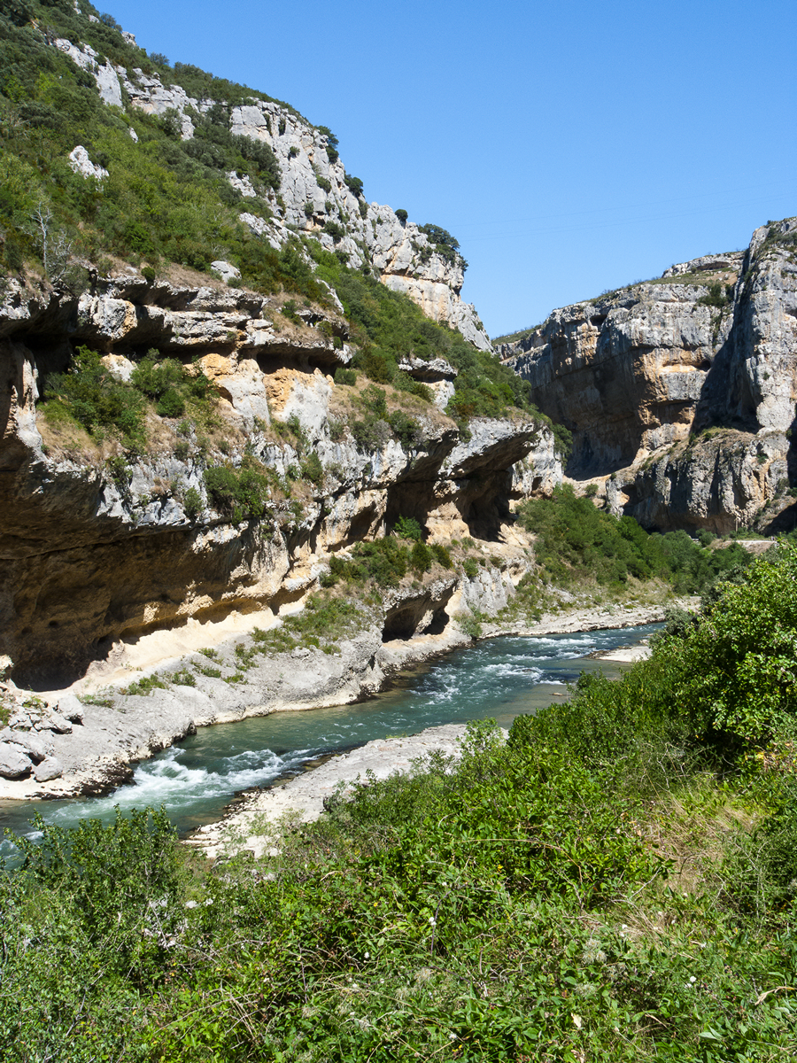 Foz de Lumbier This is a photography of a Site of Community Importance in Spain with the ID: ES2200025. Natura2000 entry, EEA entry